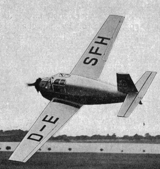 Siebel Si.202 photo from L'Aerophile October 1938